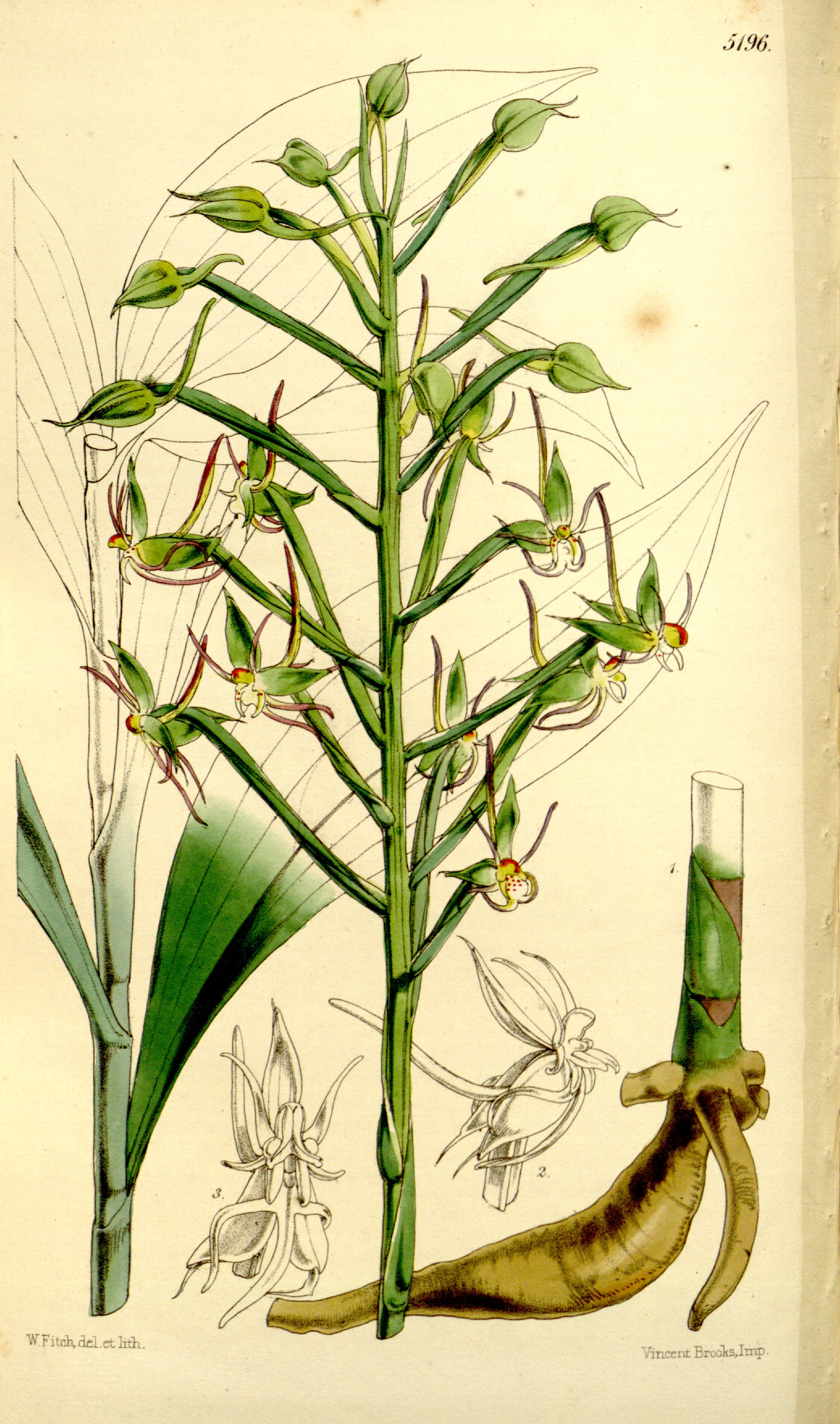 Illustration of Habenaria salaccensis